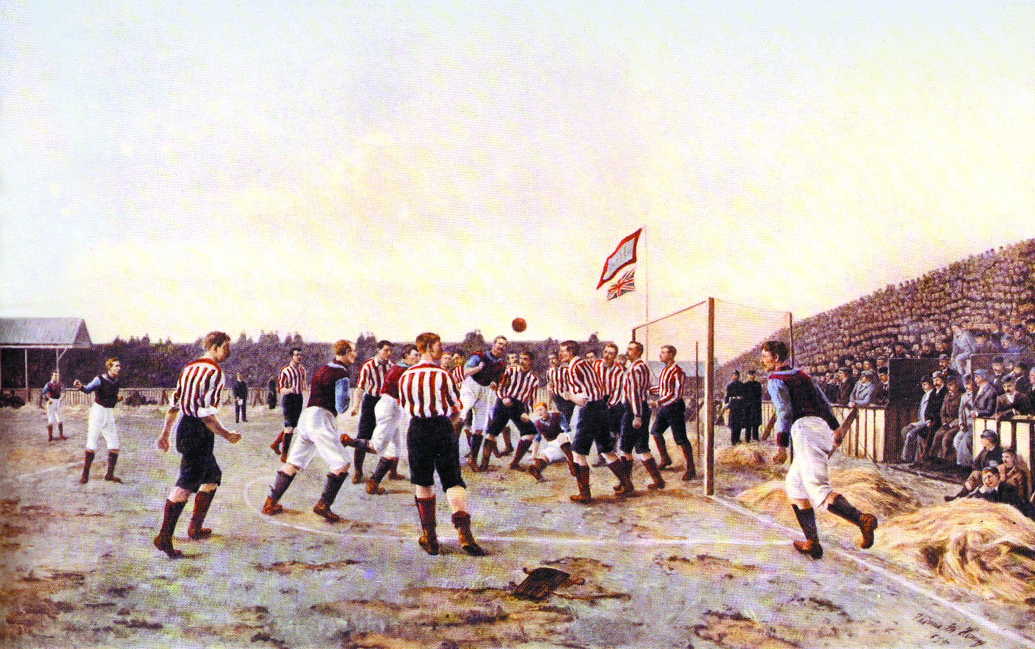 One of the earliest football paintings in the world, Thomas M.M. Hemy's "Sunderland v. Aston Villa 1895", also titled "A Corner Kick", depicts a match between the two most successful English teams of the decade. The venue is the Newcastle Road ground in Sunderland, and the game finished 4-4. This painting is currently exhibited (behind glass) at Sunderland's Stadium of Light. Hemy specialized in marine paintings, but also painted urban scenes such as this one. He was born on a ship from England to Australia in 1852, spent parts of his life in Newcastle upon Tyne and London, and died on the Isle of Wight in 1931. Information about the artist: Searle Canada